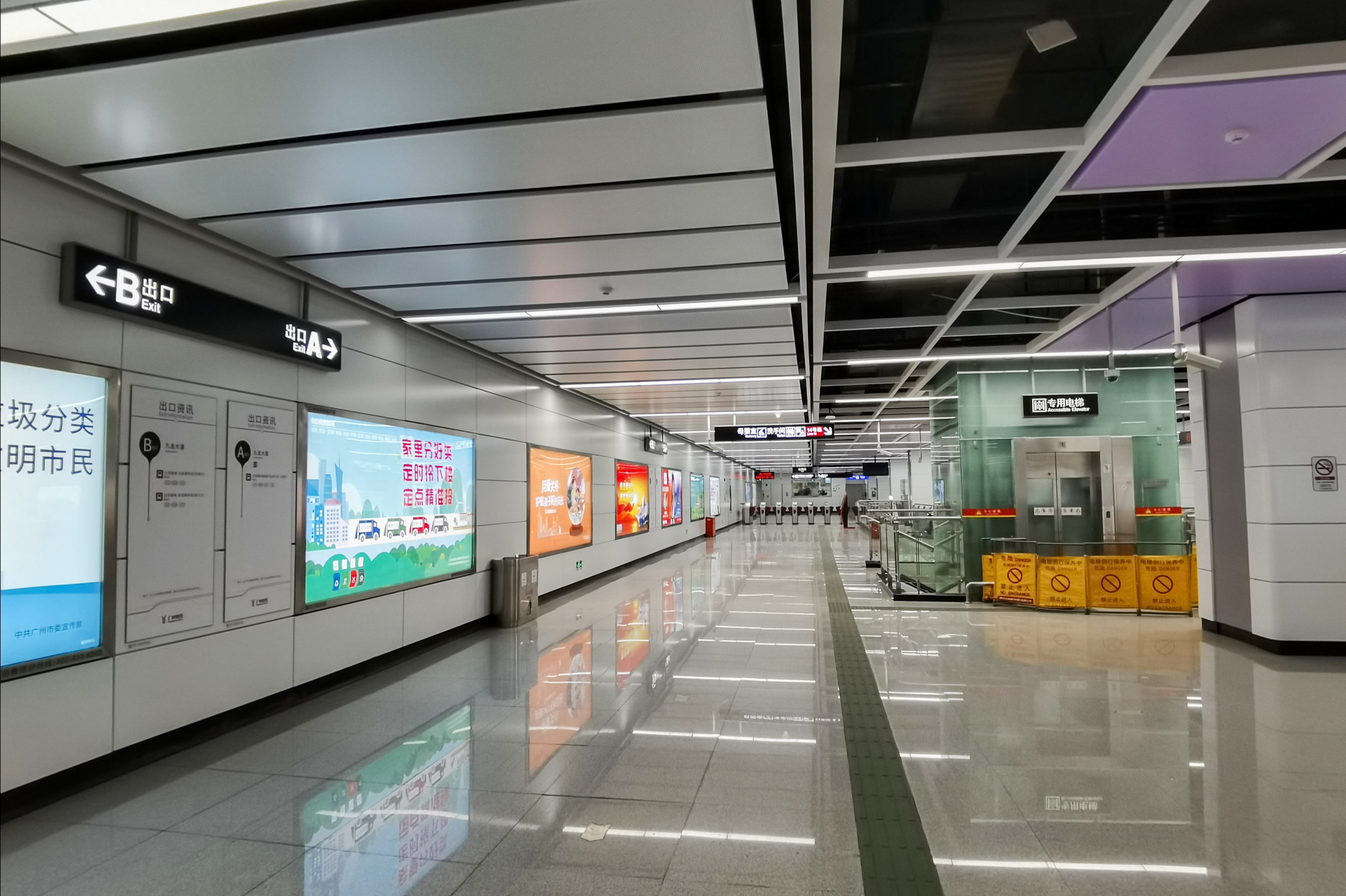 广州地铁枫下站